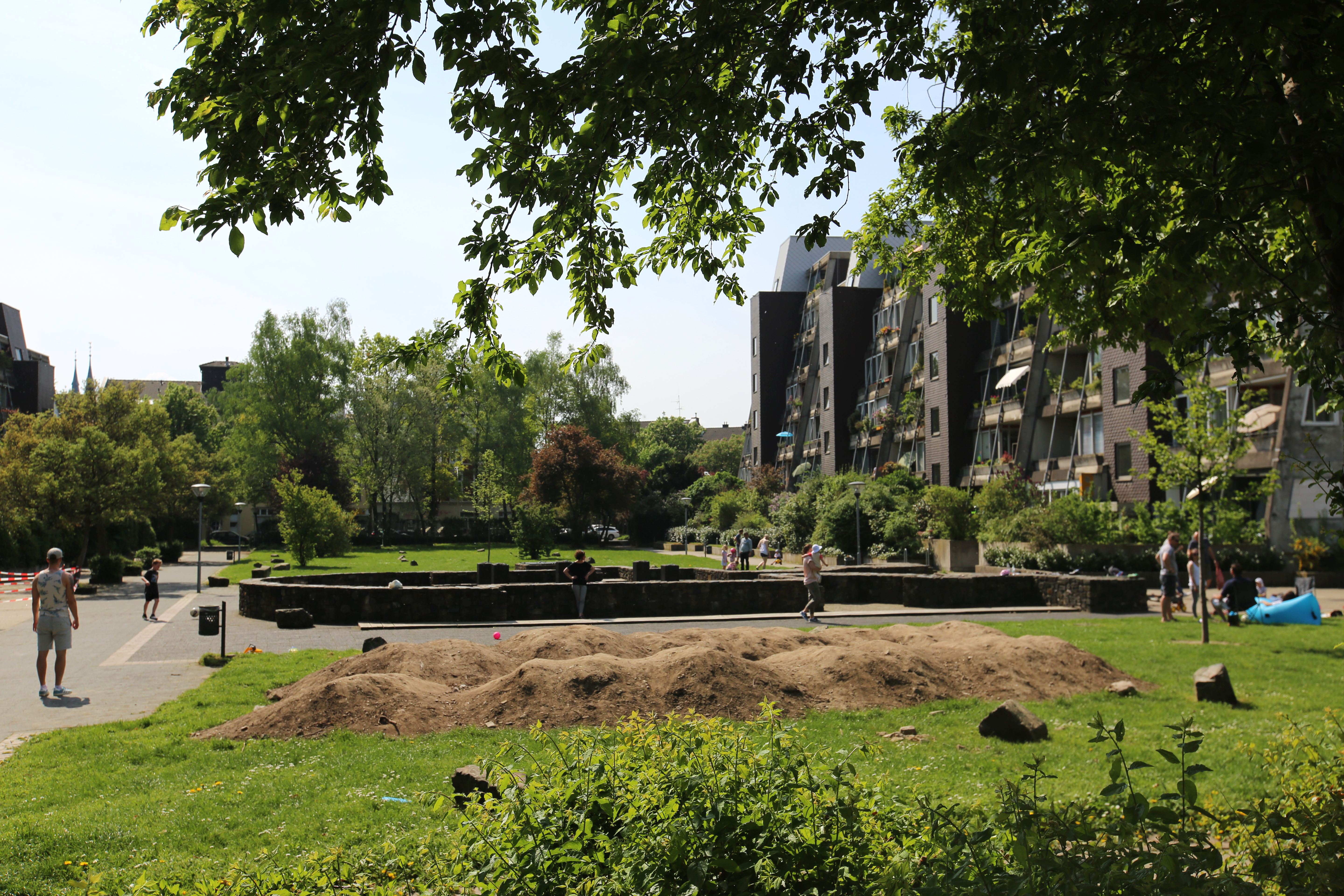 Green area of a housing complex in Bonn-Castell